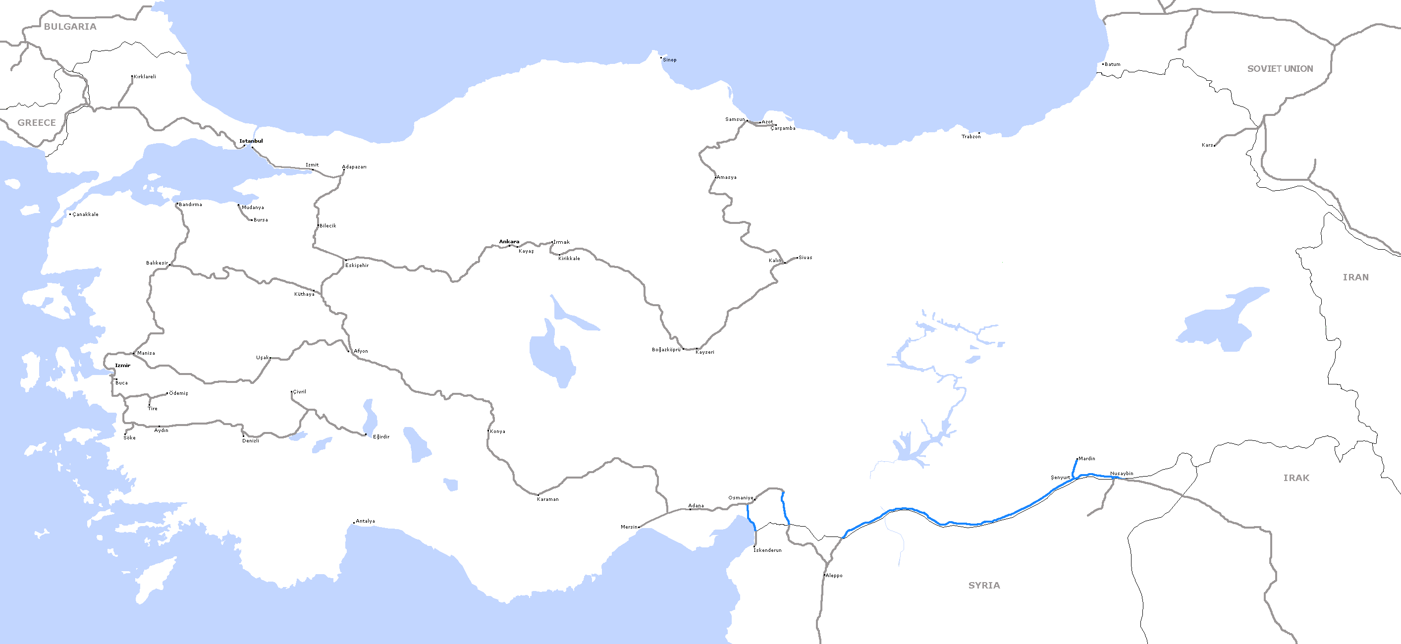 The route of the CD